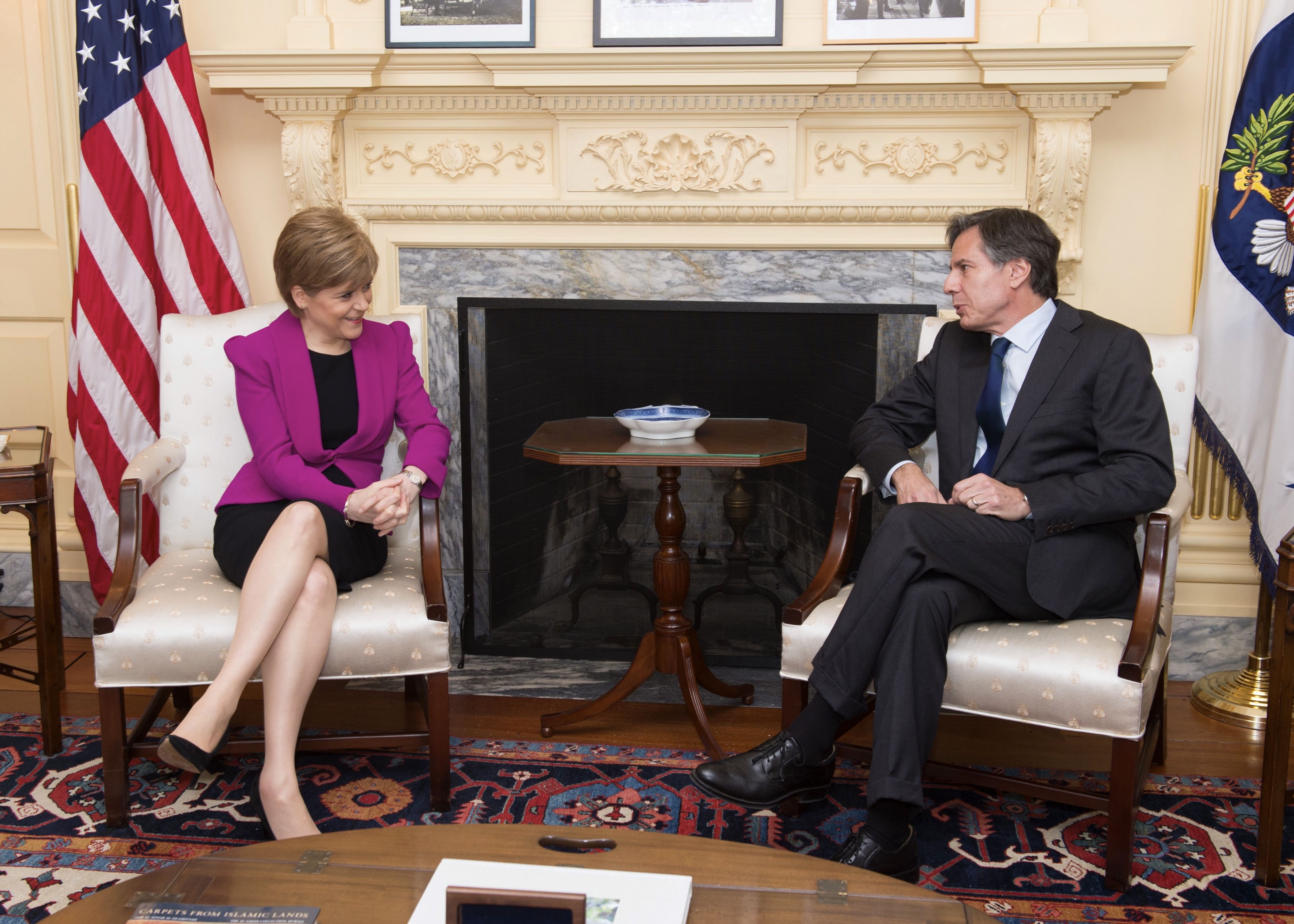 Deputy Secretary of State Antony "Tony" Blinken meets with Scottish First Minister Nicola Sturgeon at the U.S. Department of State in Washington, D.C., on June 10, 2015. [State Department photo/ Public Domain]